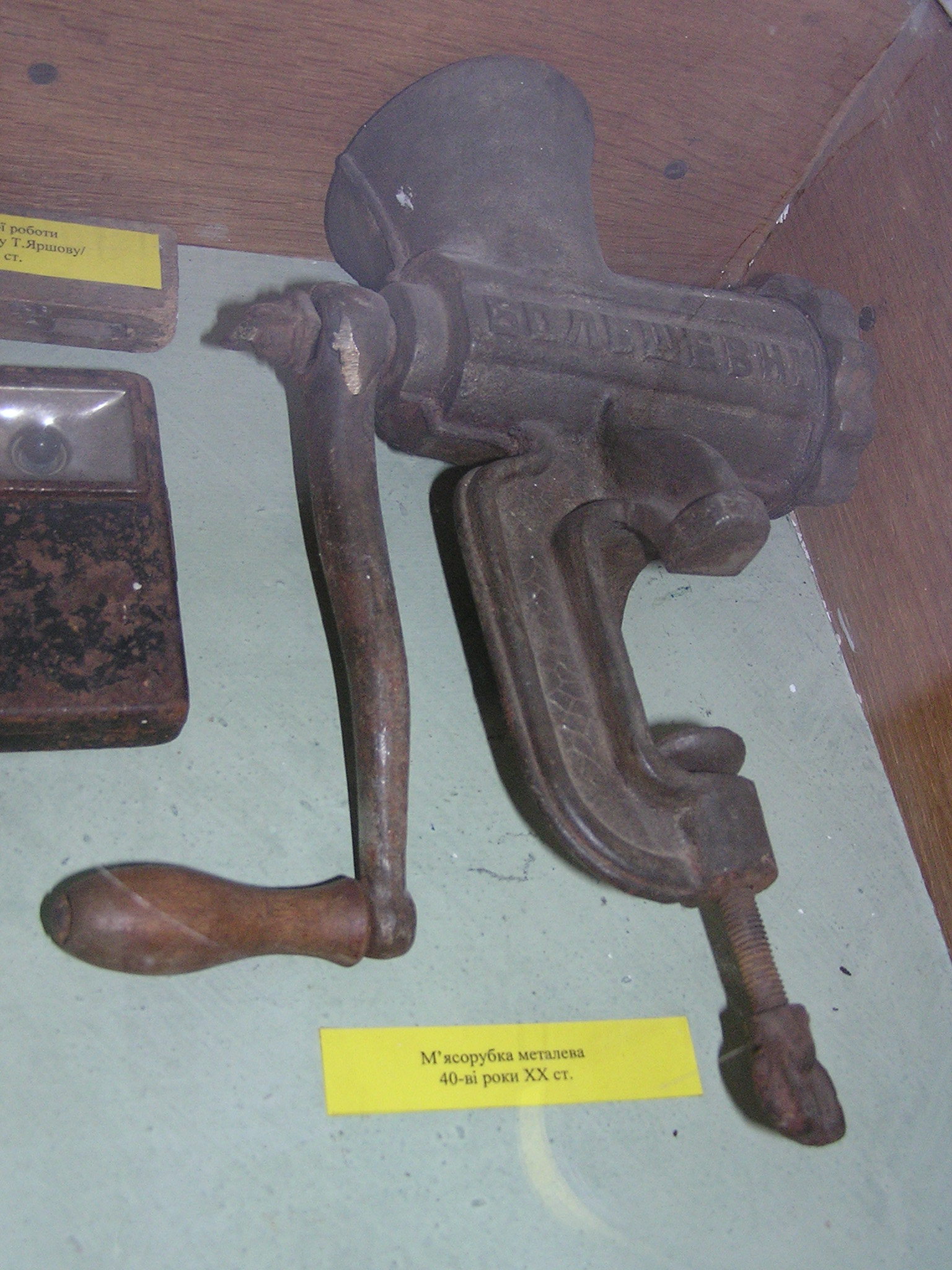 History museum of Truskavets History Museum of Truskavets Native nameМузей истории г. ТрускавецLocationTruskavetsCoordinates49° 16′ 39.5″ N, 23° 30′ 23.96″ E Established29 December 1982 Authority control : Q12130489 institution QS:P195,Q12130489